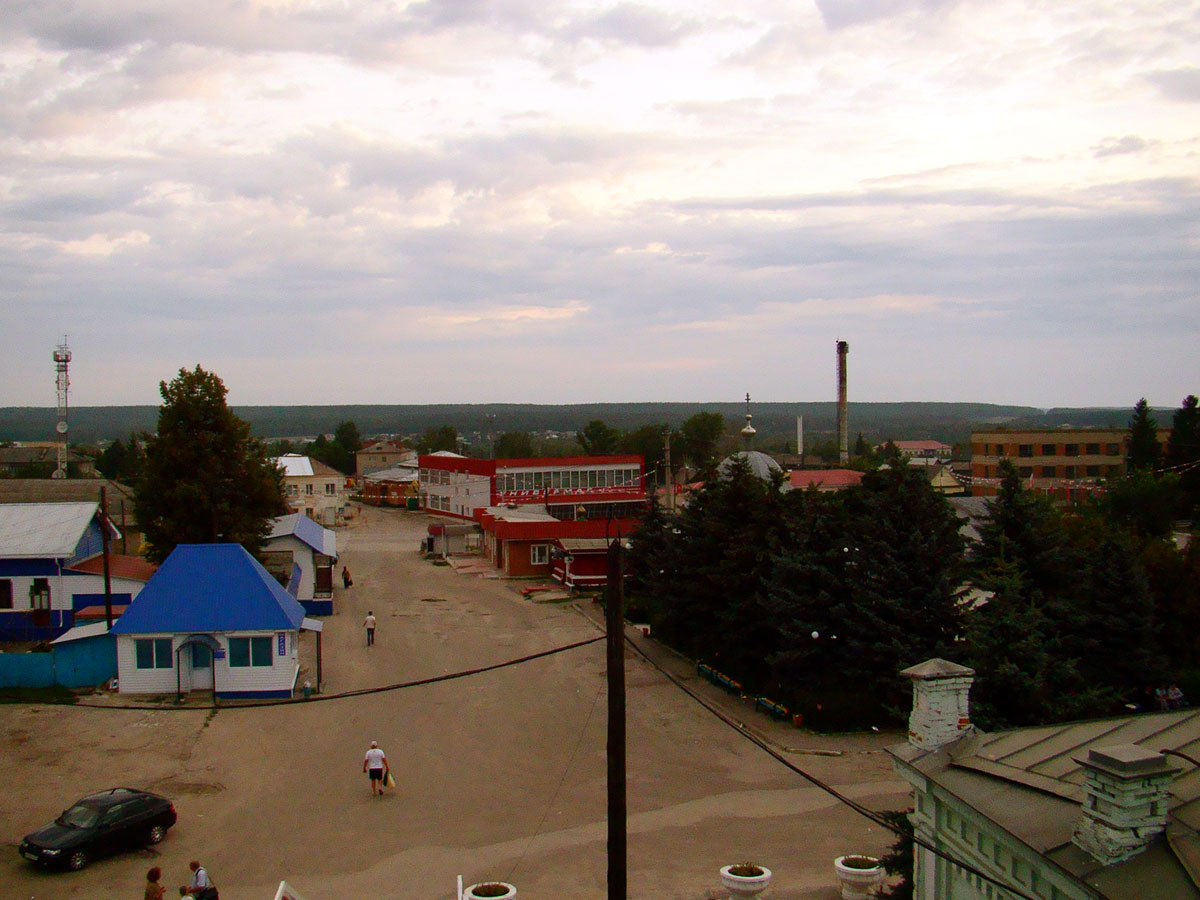 Inza town. Russia, Ulyanovsk Region.